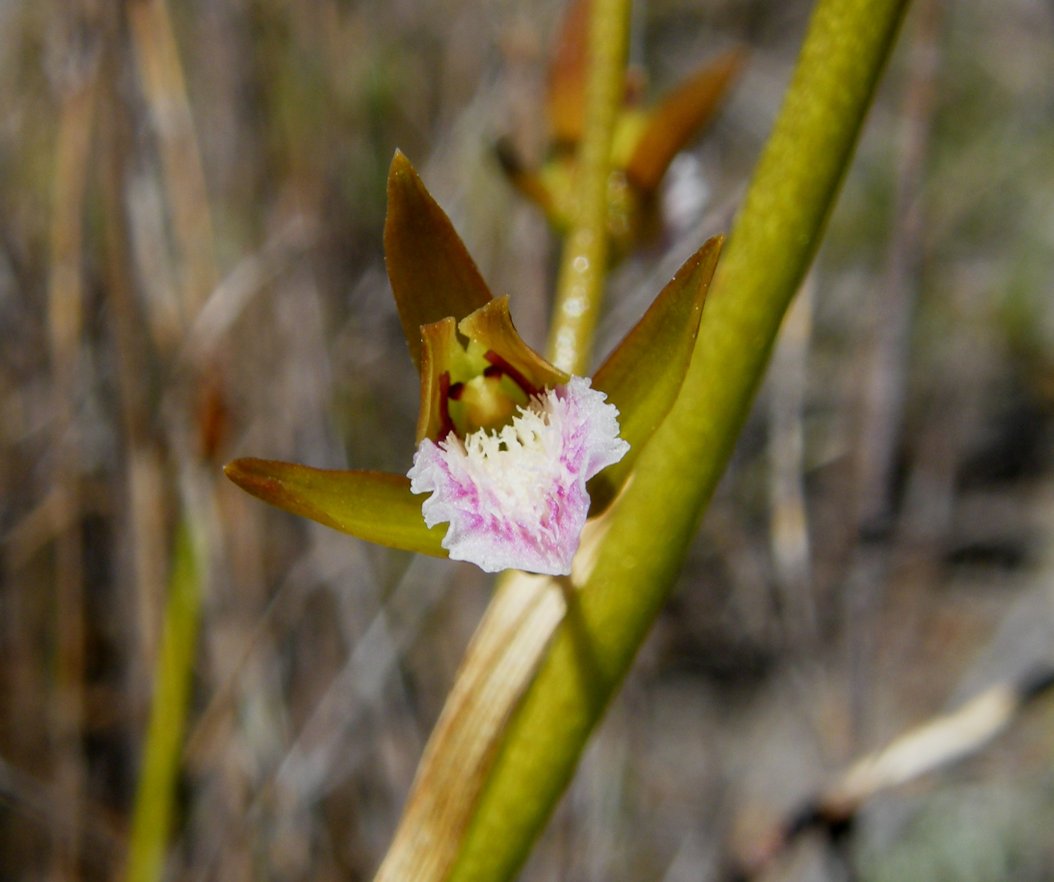 Acrolophia lamellata